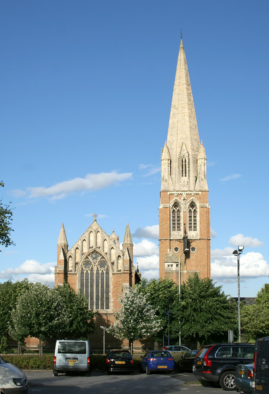 West front of St Paul's parish church, Daybrook, Nottingham